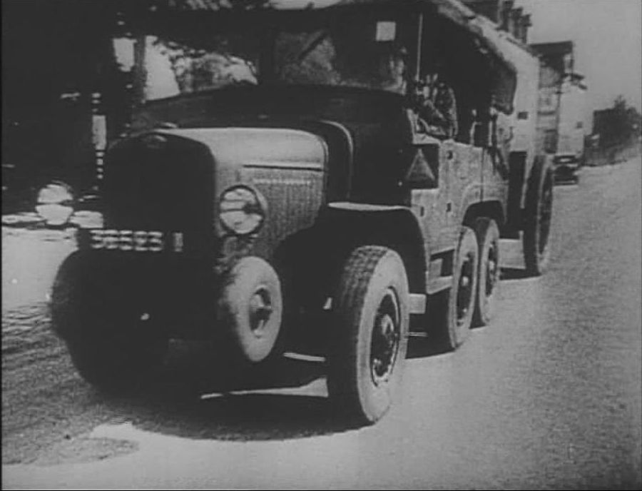 French Laffly S15T vehicle towing a 75 mm gun in May 1940. Screenhot taken from the 1943 United States Army propaganda film Divide and Conquer (Why We Fight #3) directed by Frank Capra and partially based on, news archives, animations, restaged scenes and captured propaganda material from both sides.